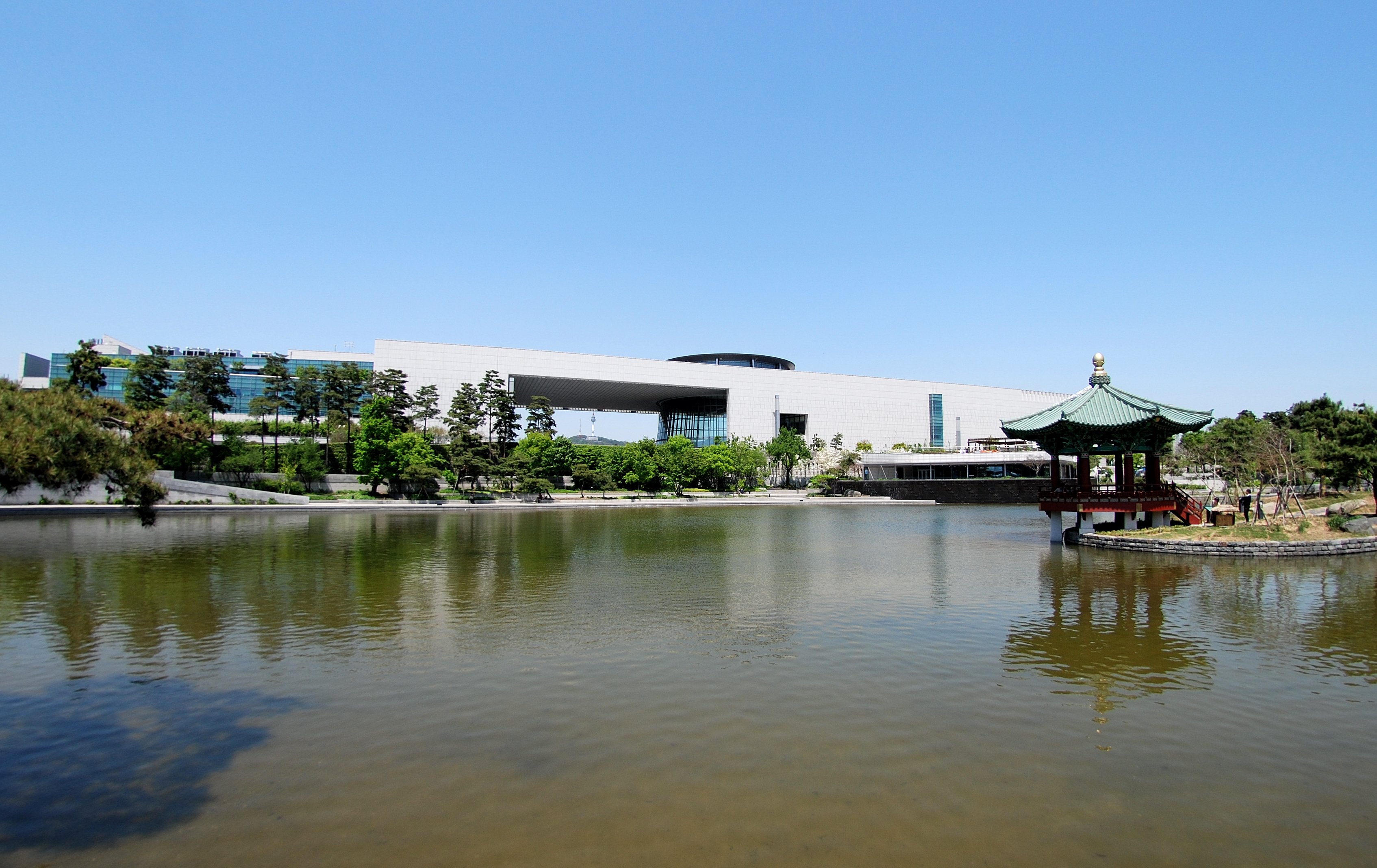 front view of National museum of Korea